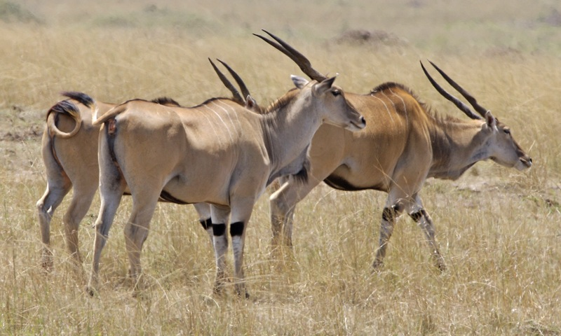 Common Elands Taurotragus oryx Masai Mara, Kenya 29th. August 2008 690V1867